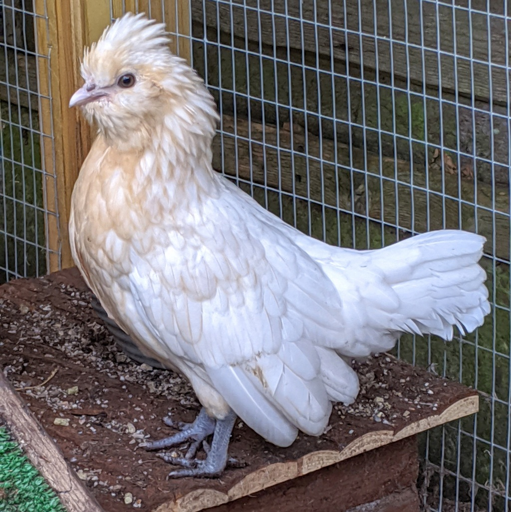 Juvenile female Barbu de Watermael chicken (variety quail: colour white with buff markings).